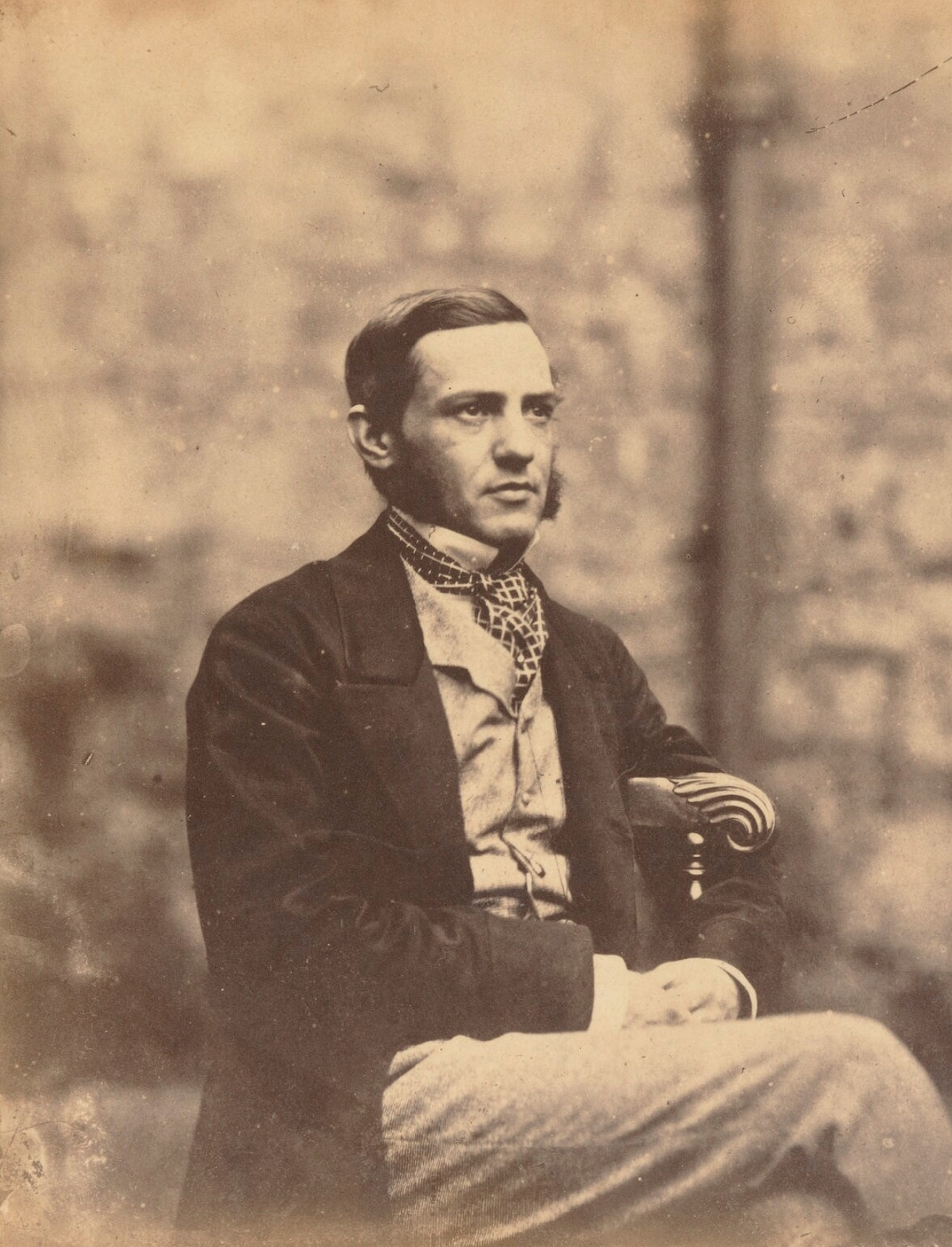 Max Muller, as photographed by Lewis Carroll